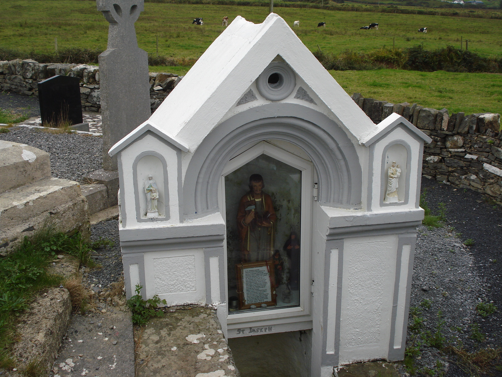 Holy Well dedicated to St. Joseph at St. Laichtins Church Cemetary, Kilfarboy